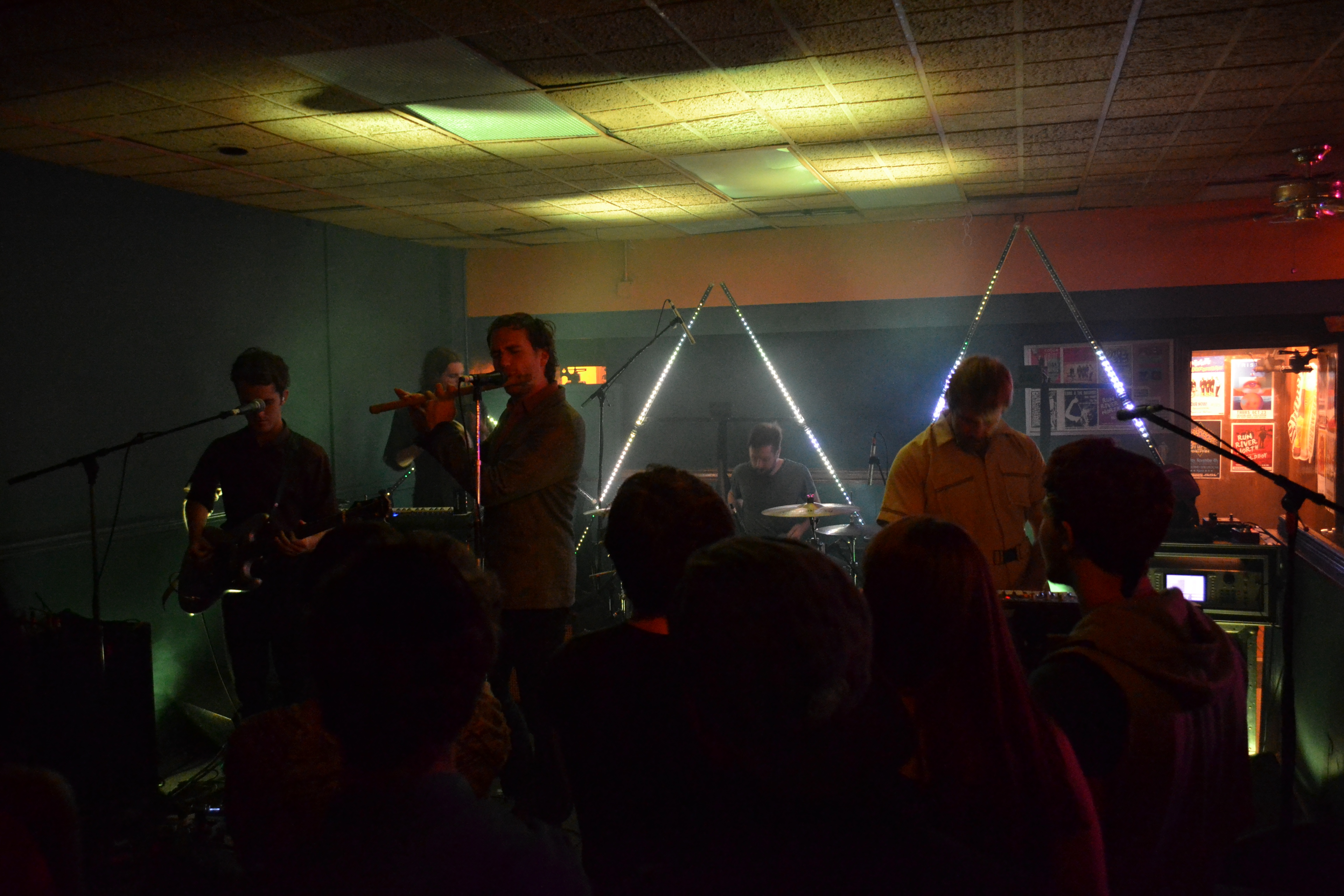 Gardens&Villa performing at the Beachland Tavern in Cleveland, OH in 2014